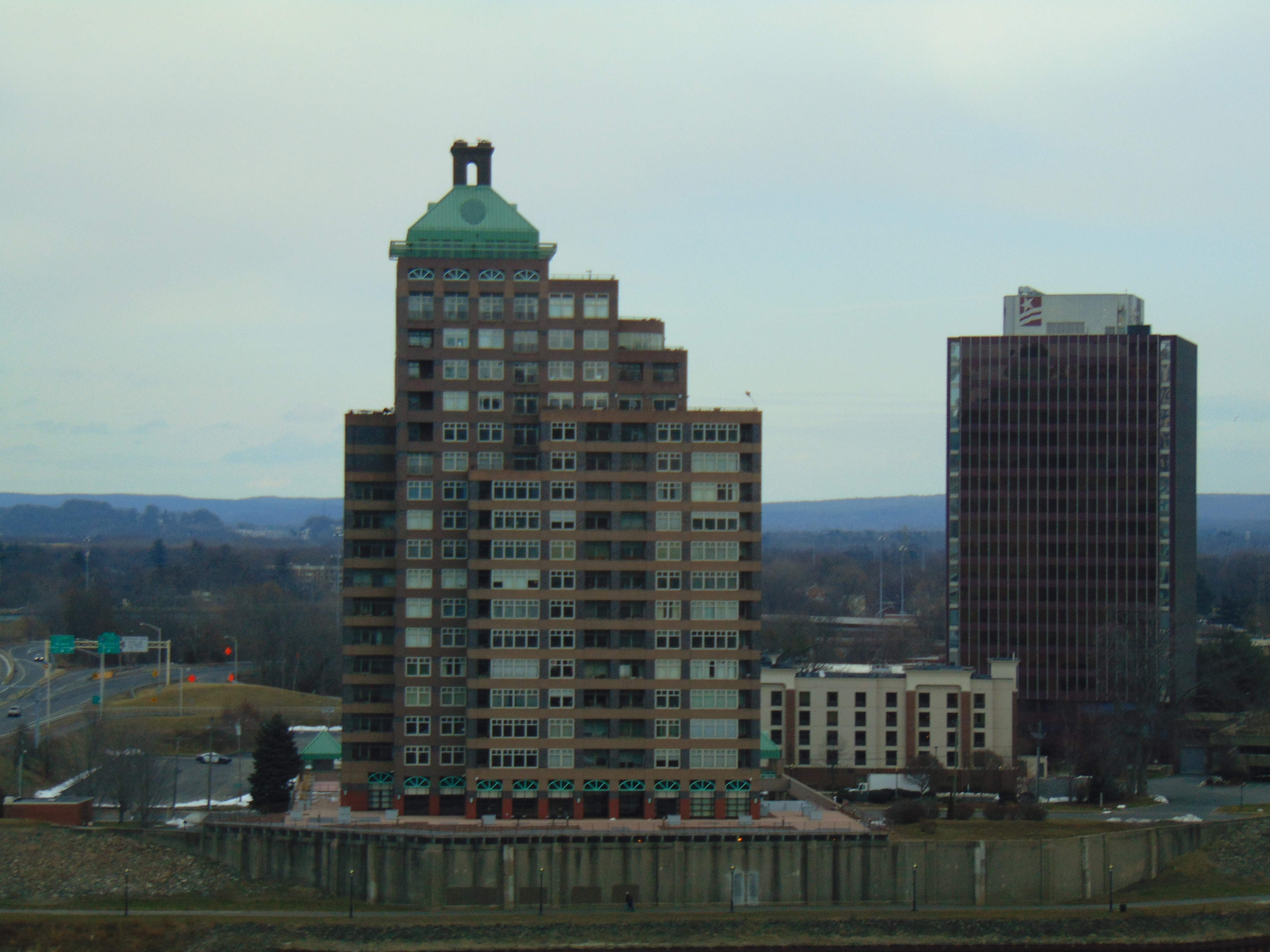 A view of the East Hartford skyline